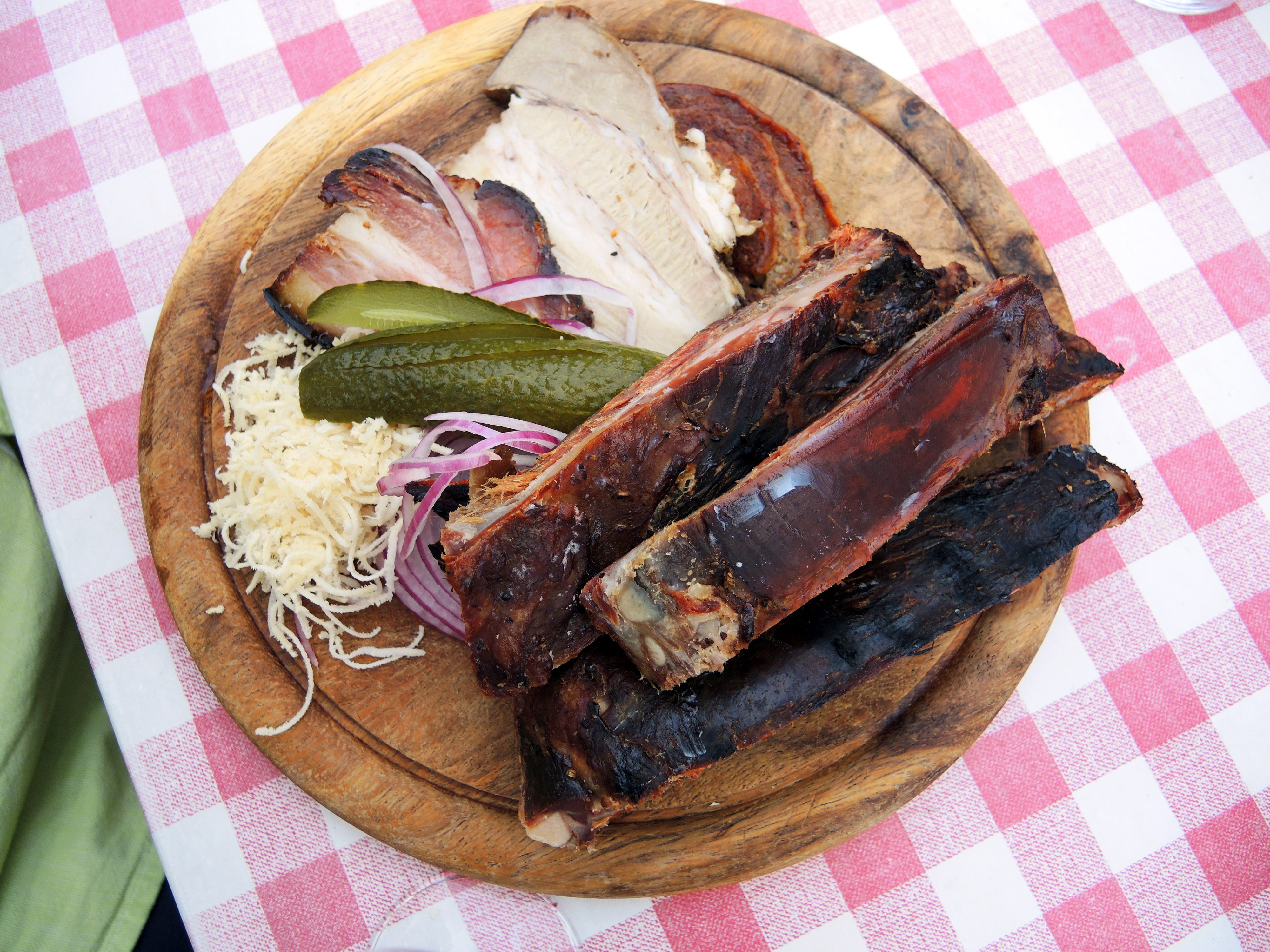 Grilled Spareribs with sliced onions